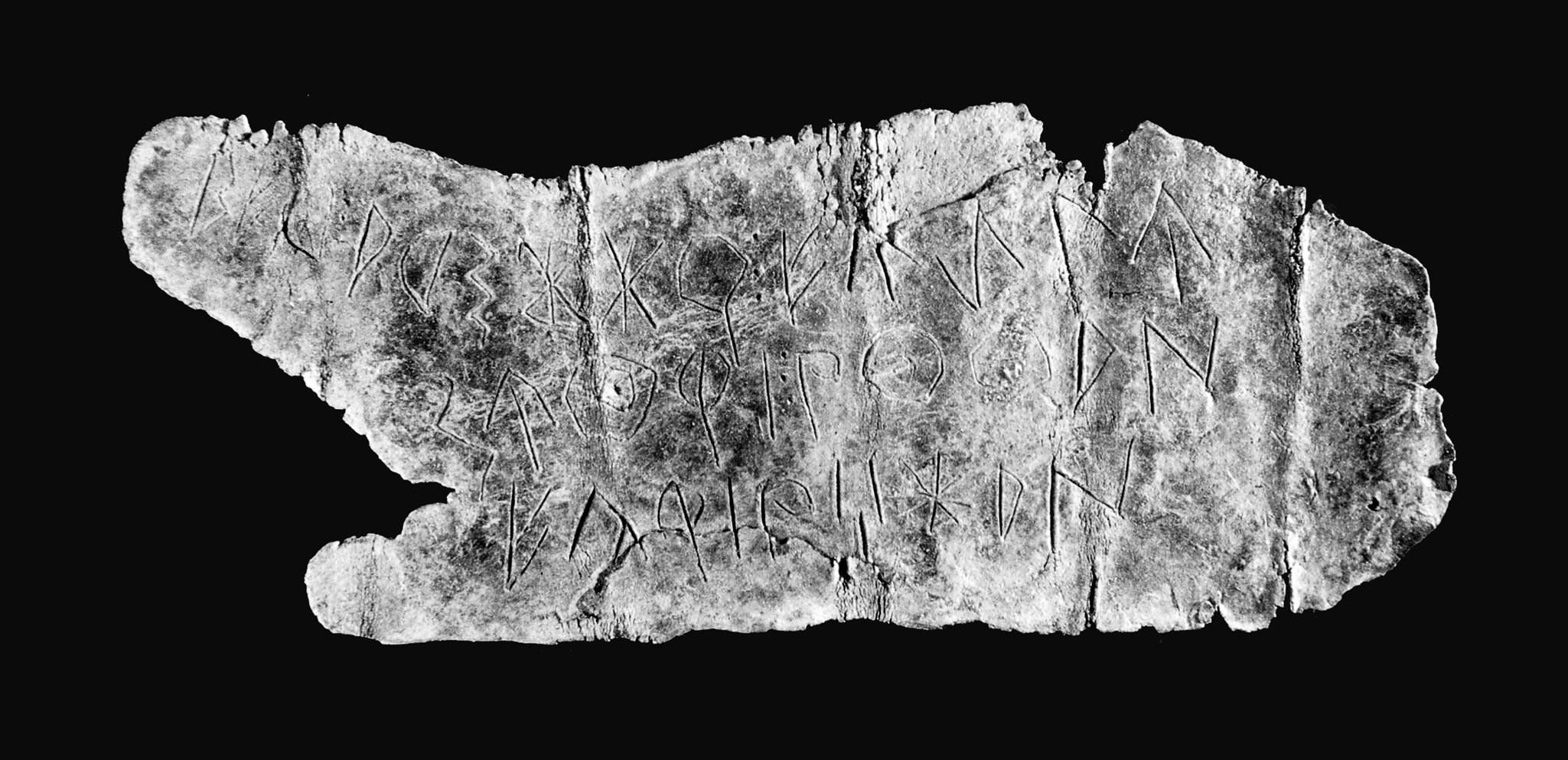 Lead plate with epigraphic inscription (Iberian language) from Castellet de Bernabe